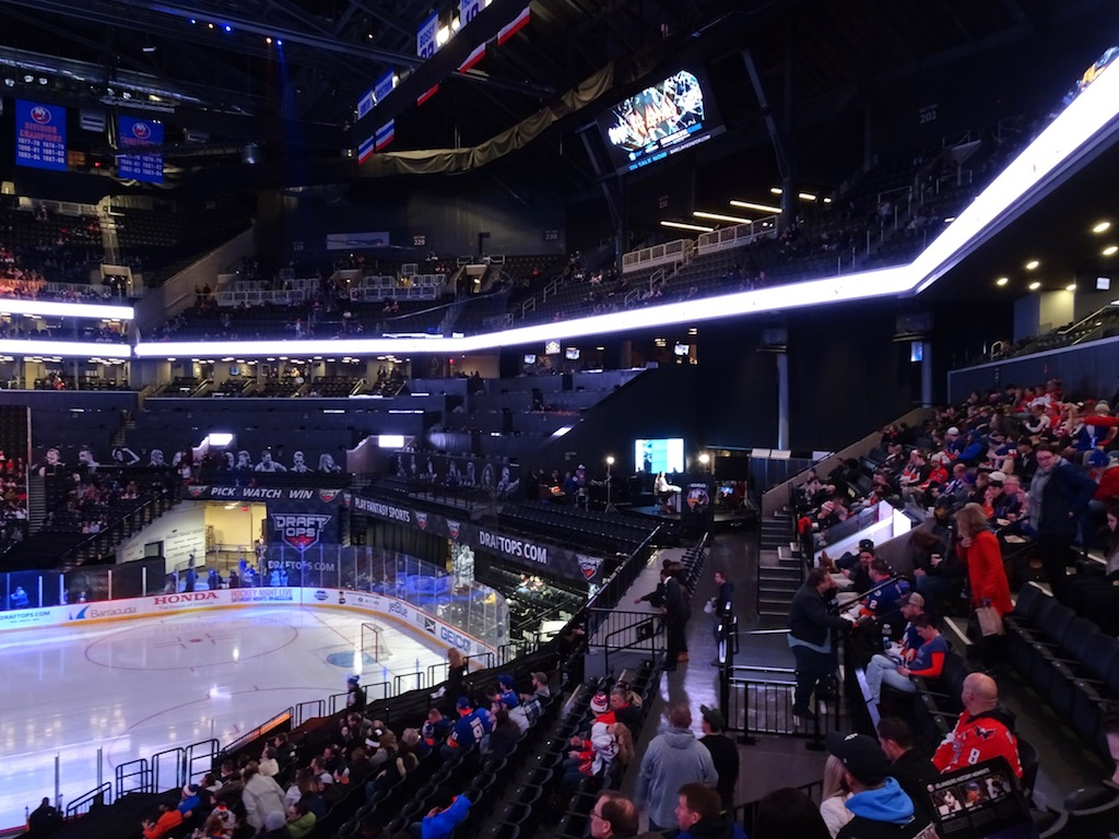 Barclays Center - Home of the New York Islanders